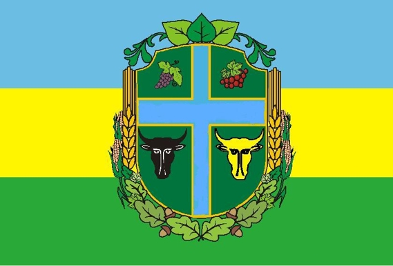 Flag of Novoselytsia Raion, Chernivtsi Oblast